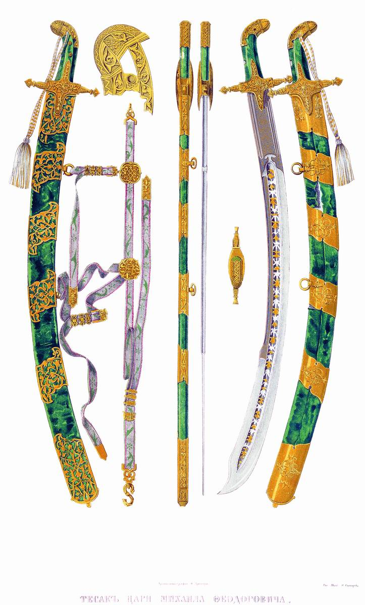 Sabre of Mikhail I Fyodorovich Romanov. Master czech Nil Prosvit, 1617. Bulat steel